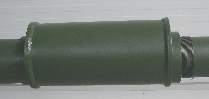 Bore evacuator